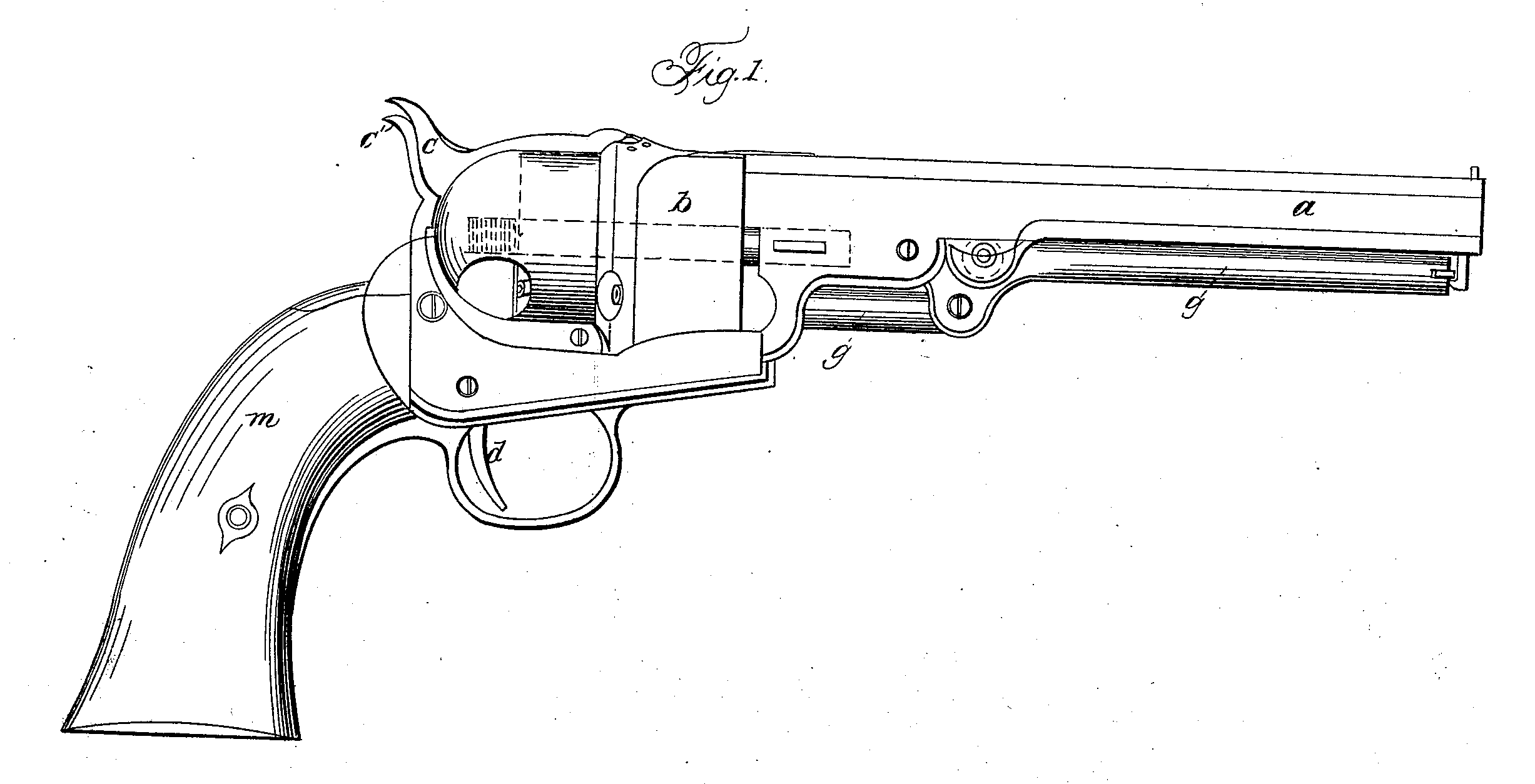 Image depicts figure 1 from the patent application of John Walch for the Walch Revolver. The revolver was capable of firing 12 rounds using 6 chambers.